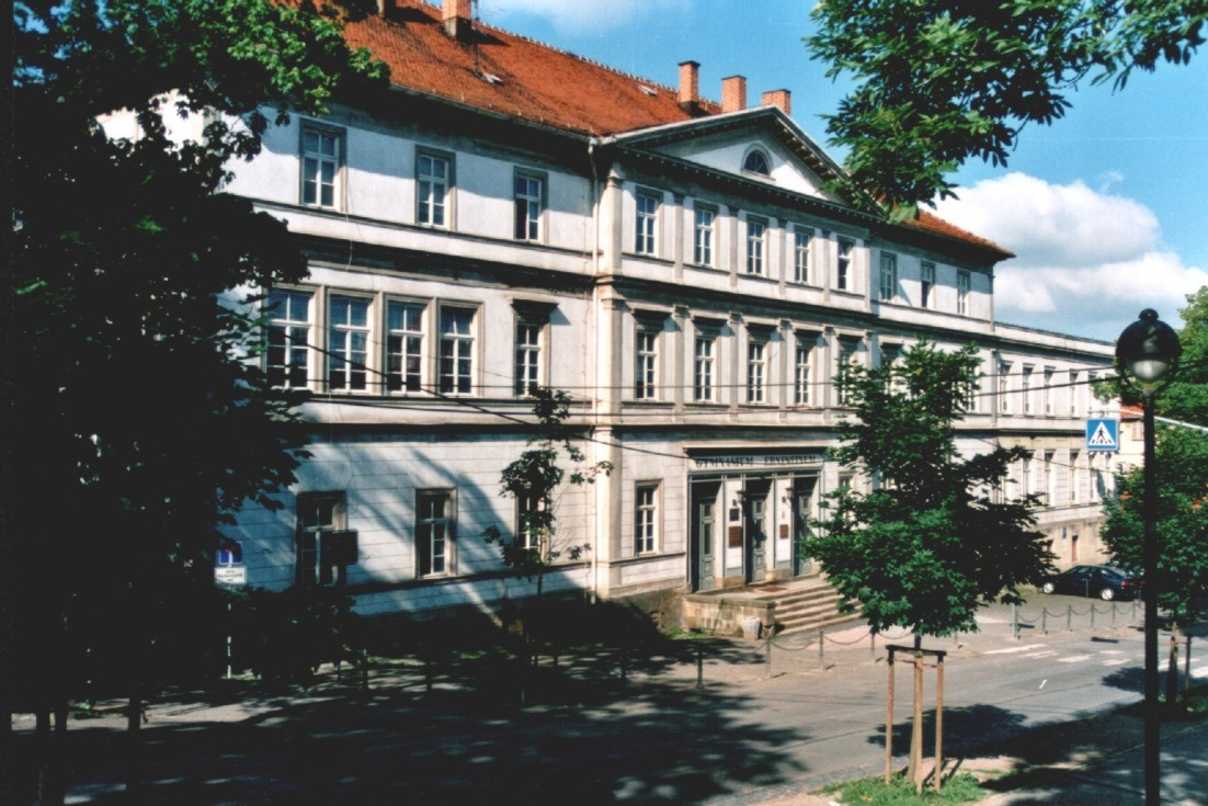 Picture of the gymnasium Ernestinum in Gotha.